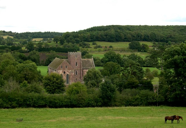 Dore Abbey, from the South The setting may not seemed to have changed in centuries, but the GWR Golden Valley line passed nearby, and the SAS are not too far away - in this county they are never too far away.